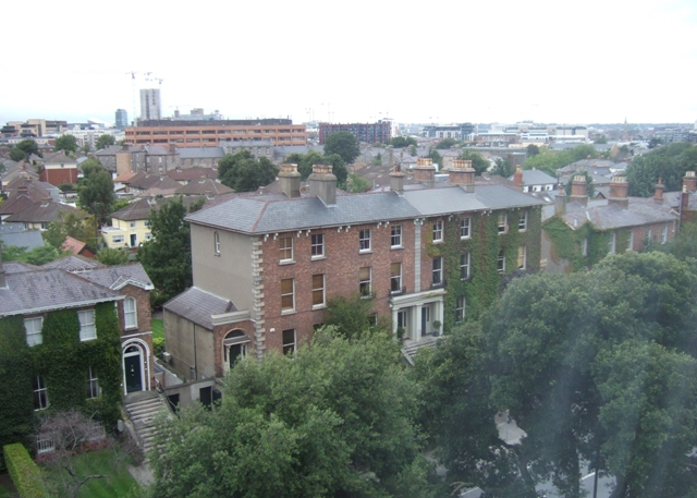 Dublin skyline Looking over Lansdowne Road towards the city centre.